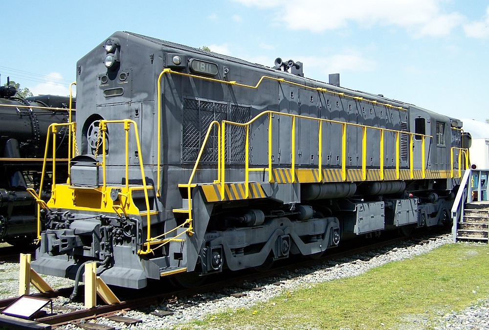 Exhibit in the Army Transportation Museum, USAX 1811 an EMD MRS1 diesel